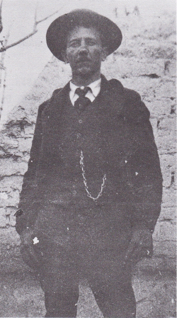 Arizona lawman and outlaw Billy Stiles, from "Ghost Towns of Arizona" (Sherman, 1969).